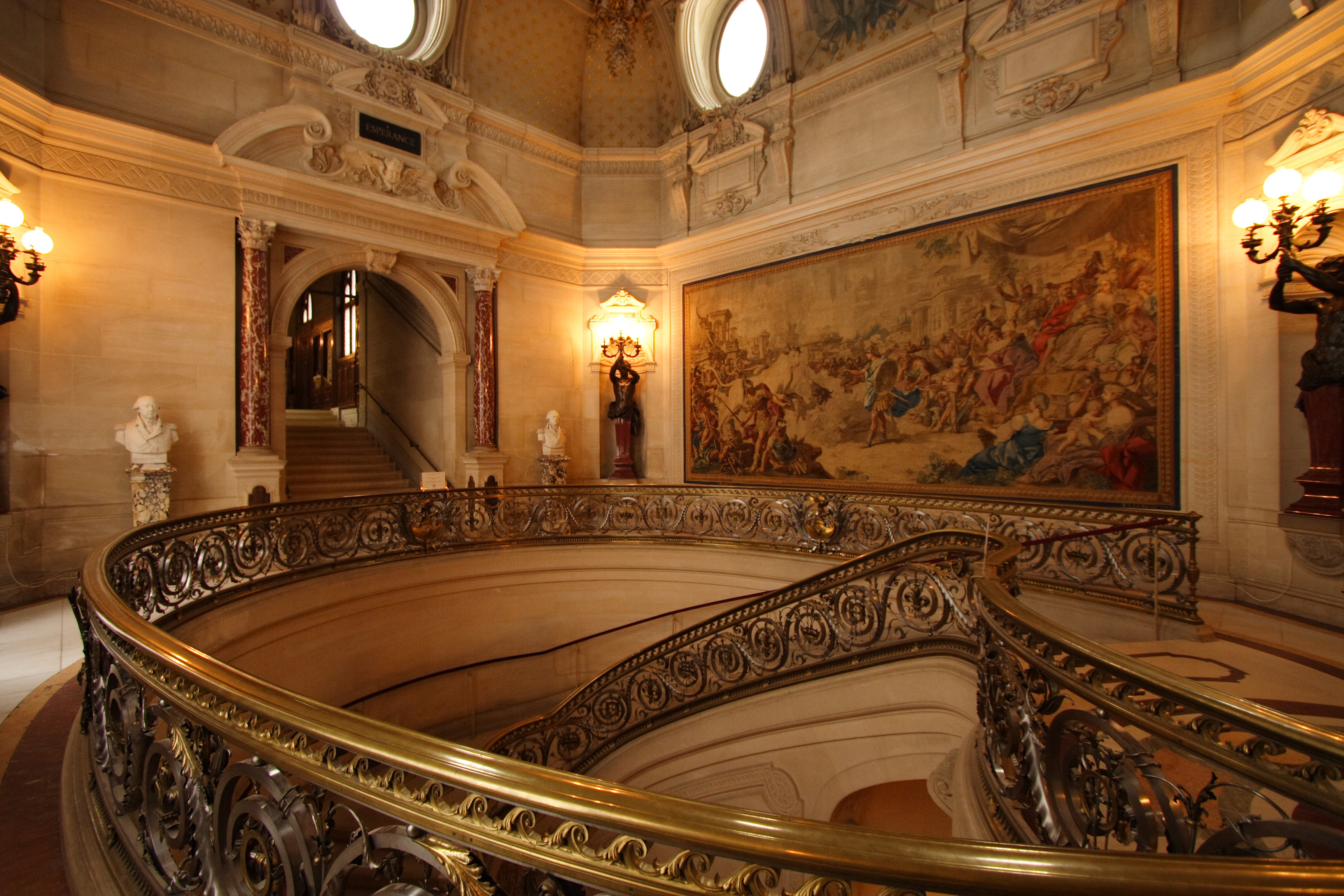 a circular staircase in the castle(Chantilly, France)